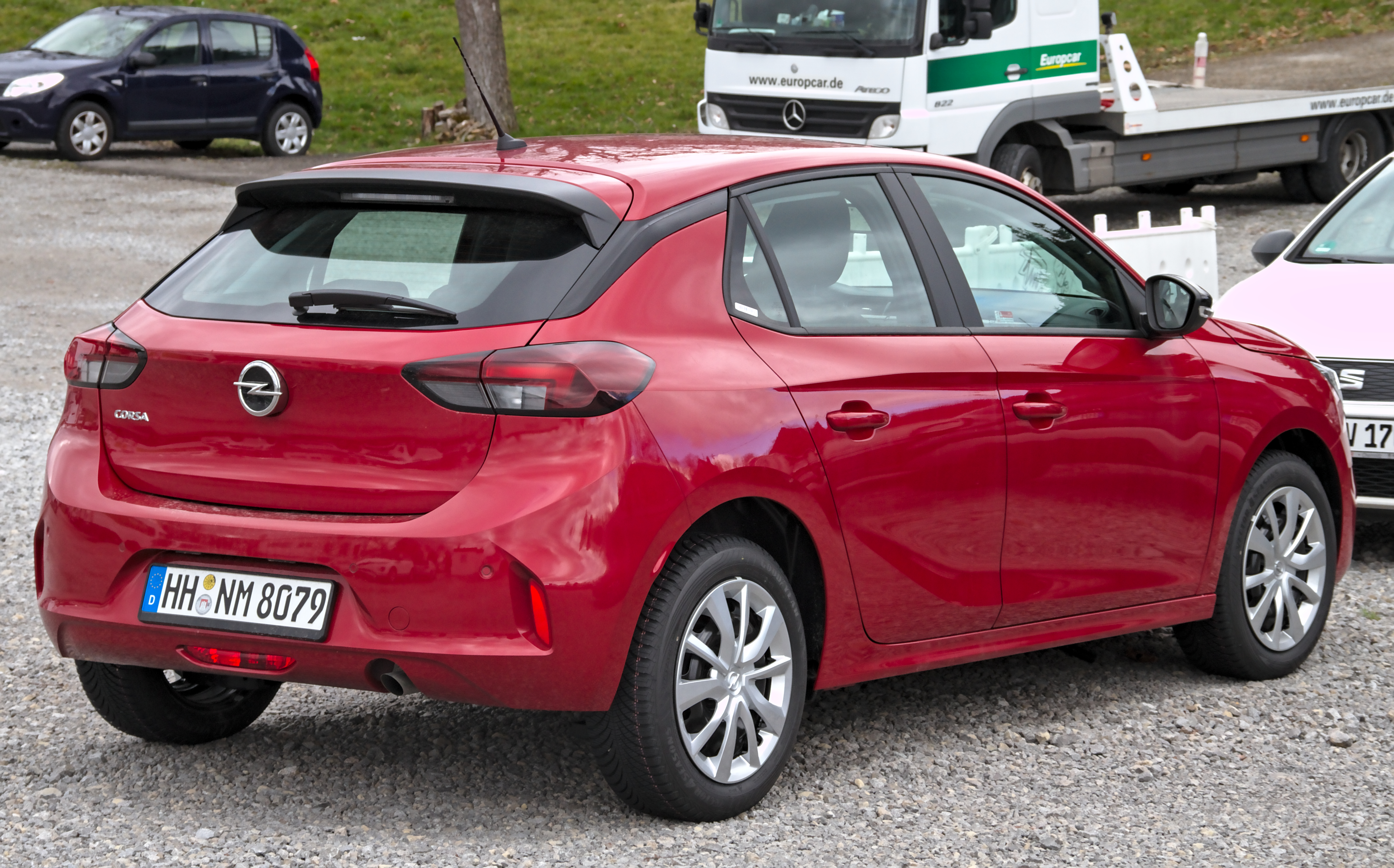 Opel_Corsa_F in Stuttgart-Vaihingen